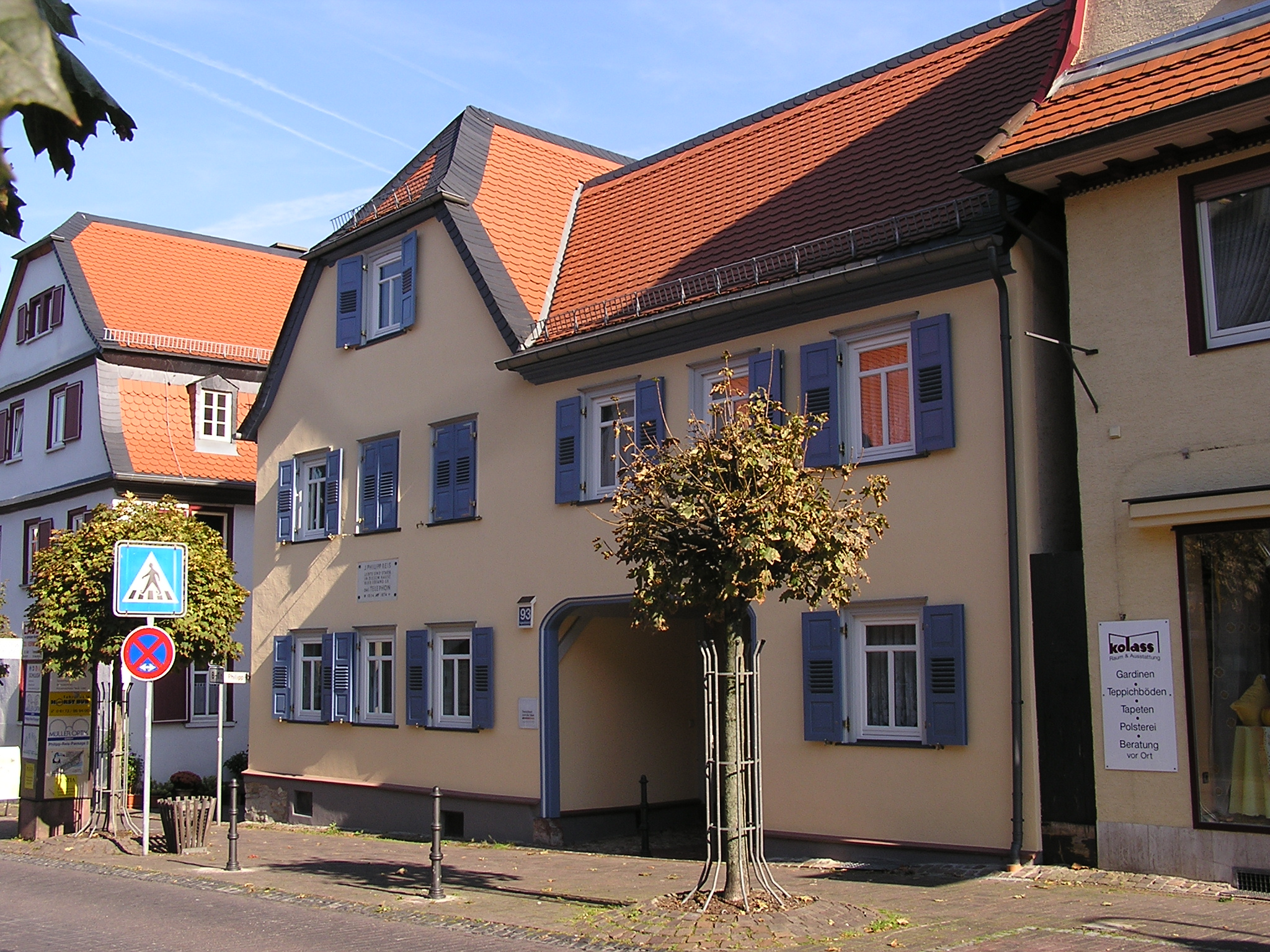 The Philipp-Reis-House in Friedrichsdorf. Here, the telephone was invented. Today the building is a museum.